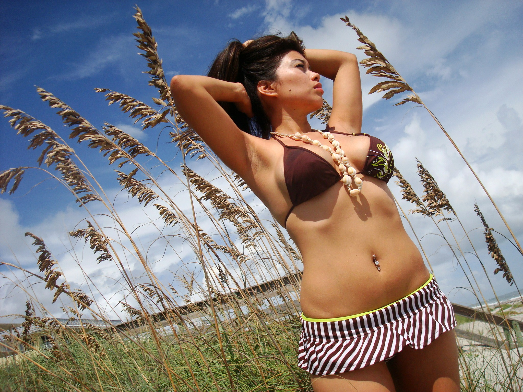 Woman wearing a brown bikini.